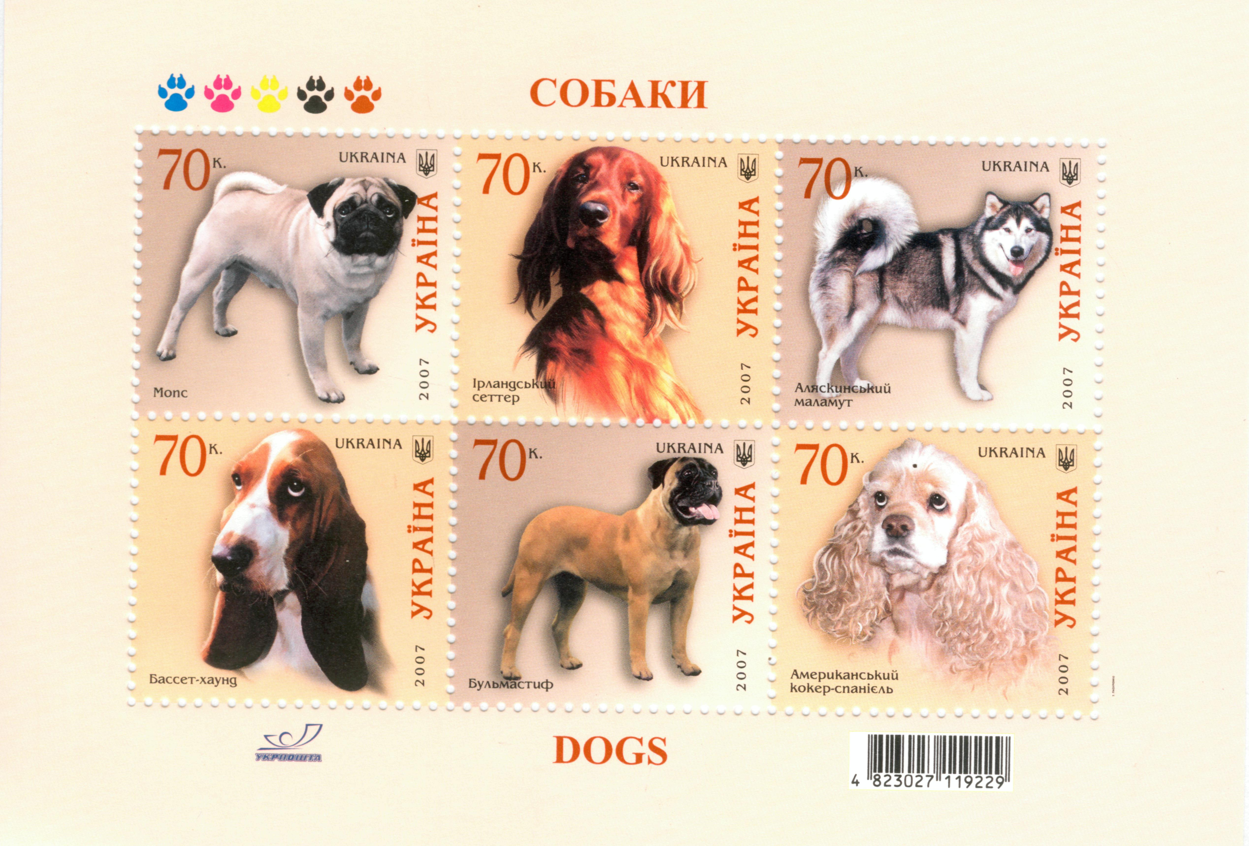 Sheet of six stamps of Ukraine from 2007.